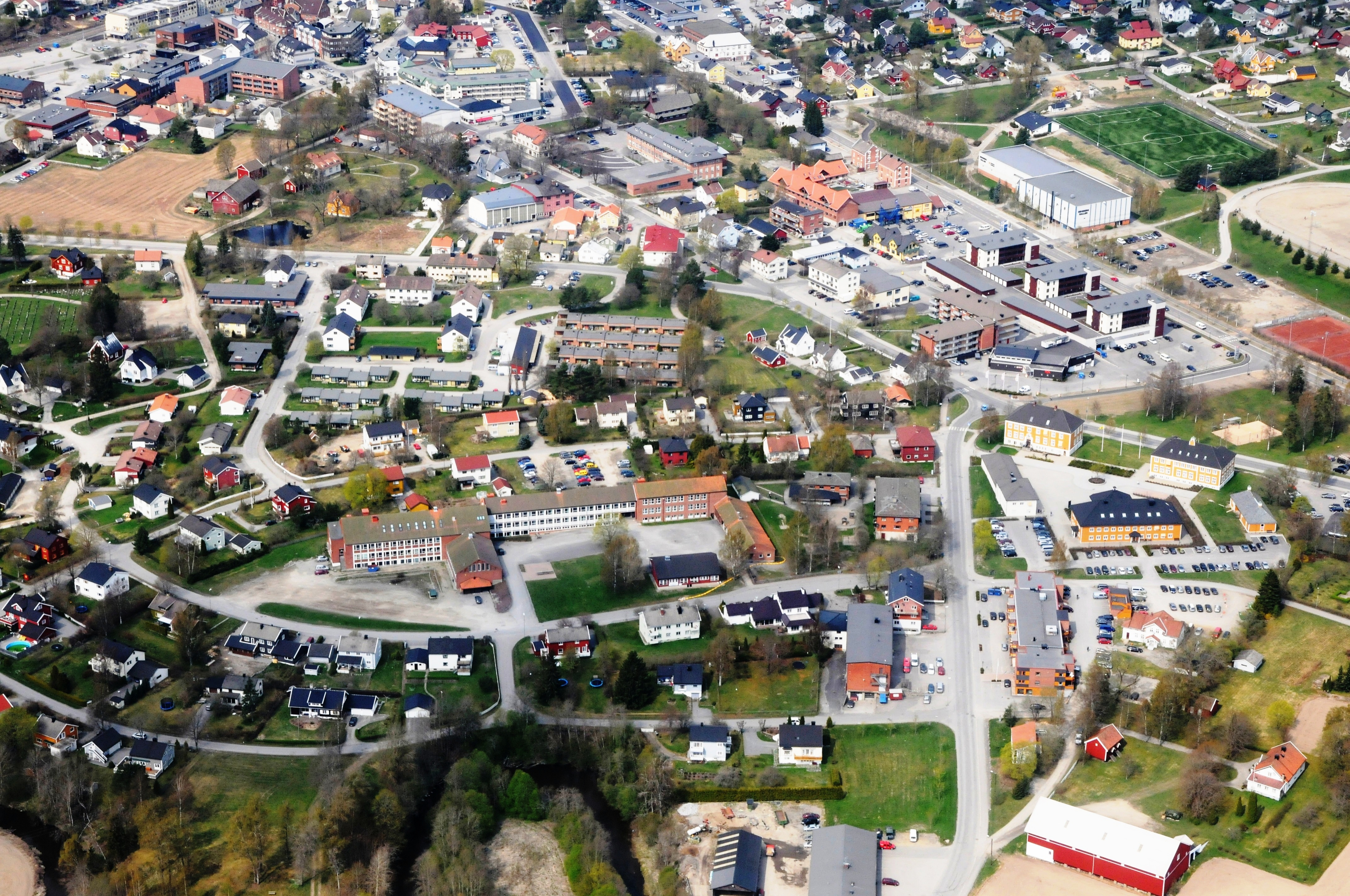 Mysen city centre